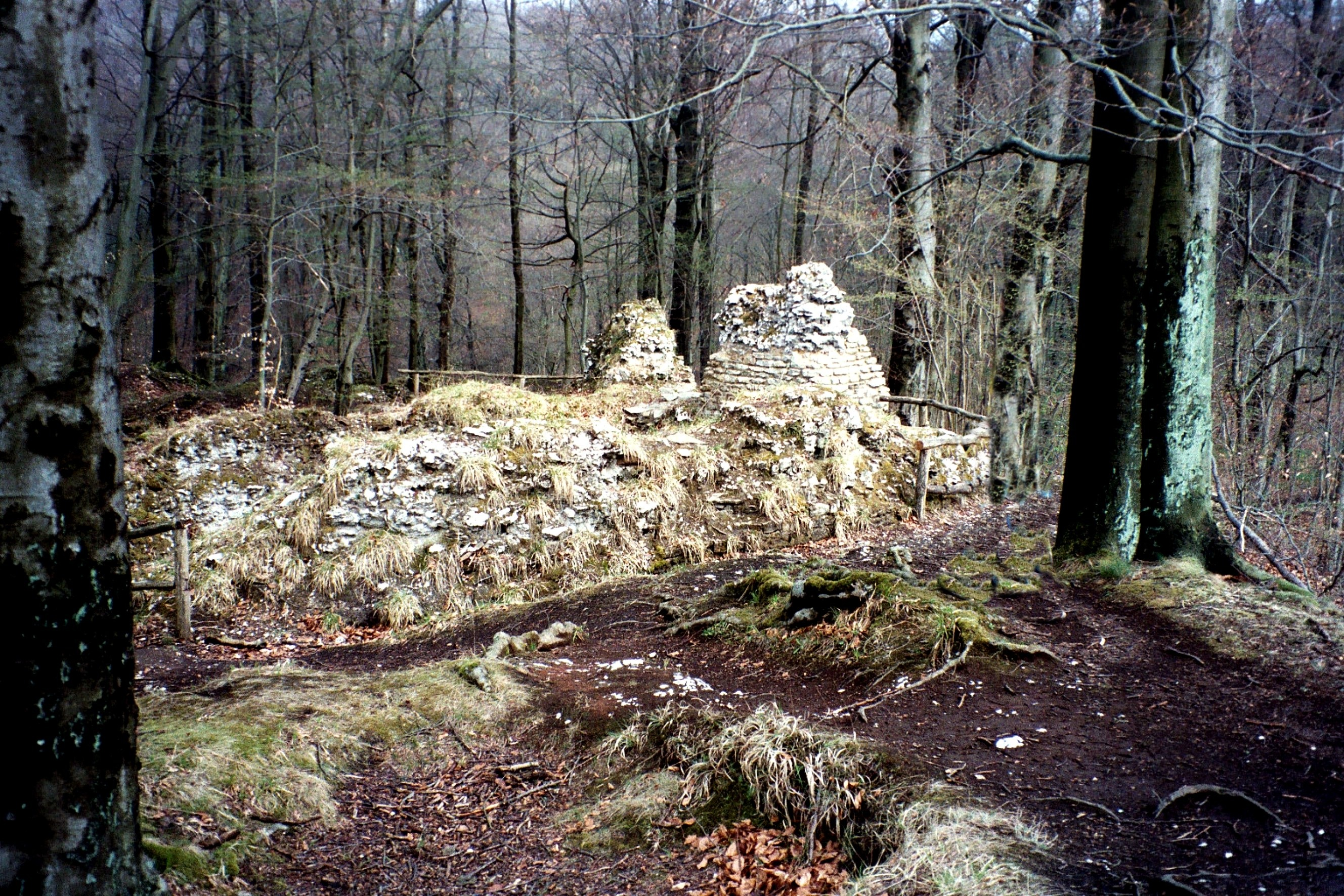 Bad Sachsa, the ruined castle Sachsenstein